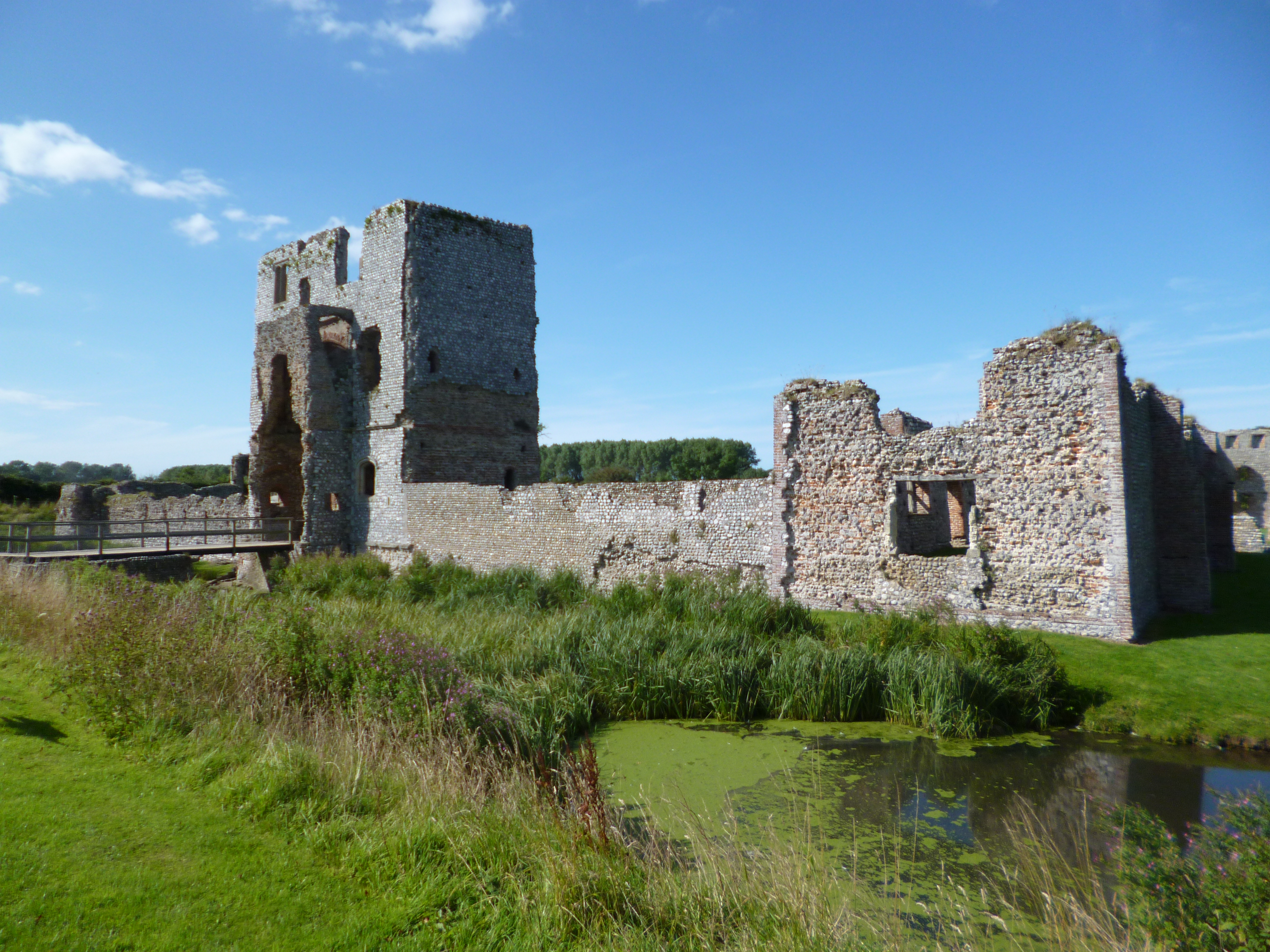 Baconsthorpe Castle Wikidata has entry Q4839962 with data related to this item.